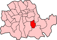 Map of the Metropolitan borough of Deptford, former County of London.